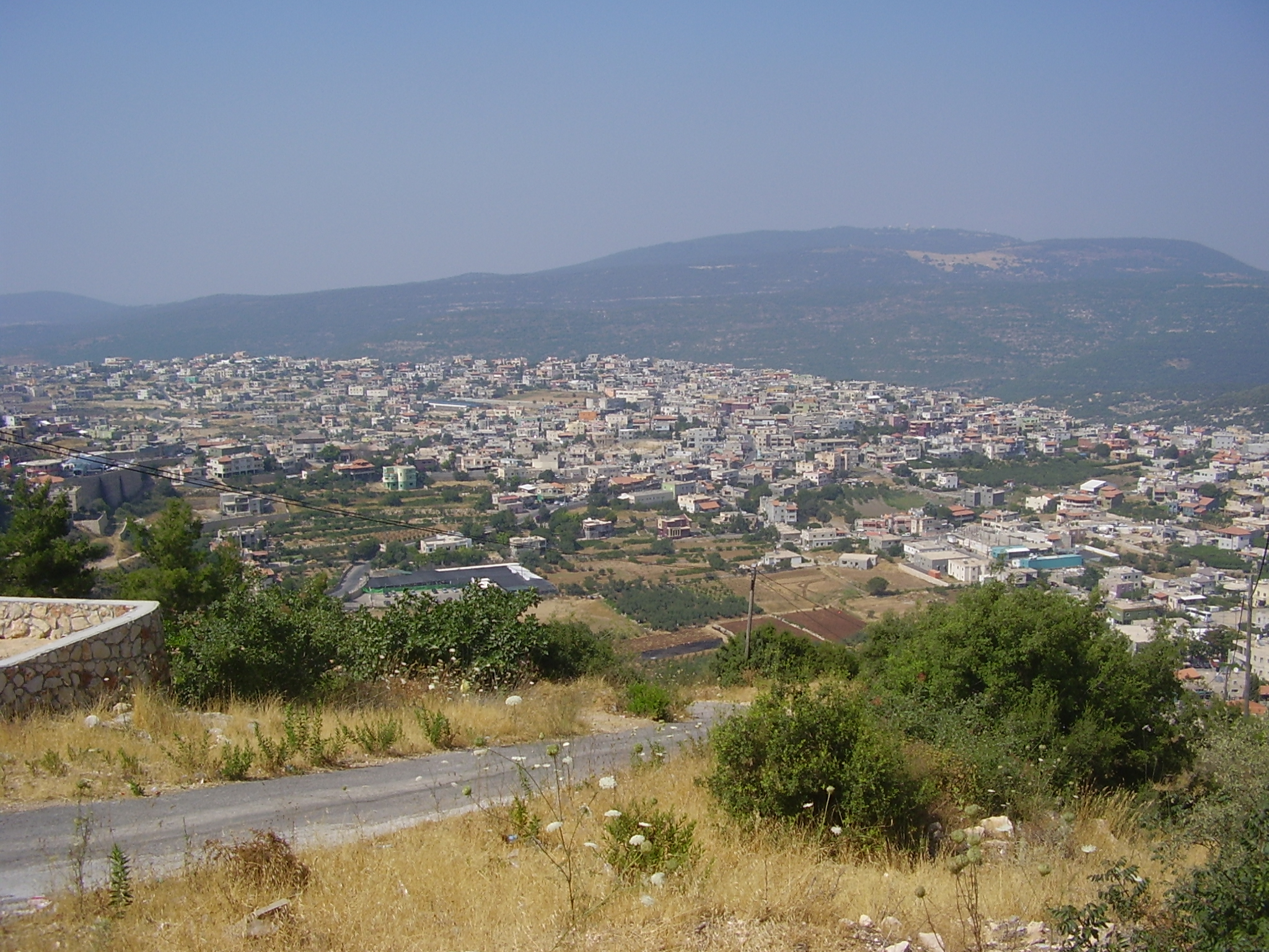 beit jann in upper galilee